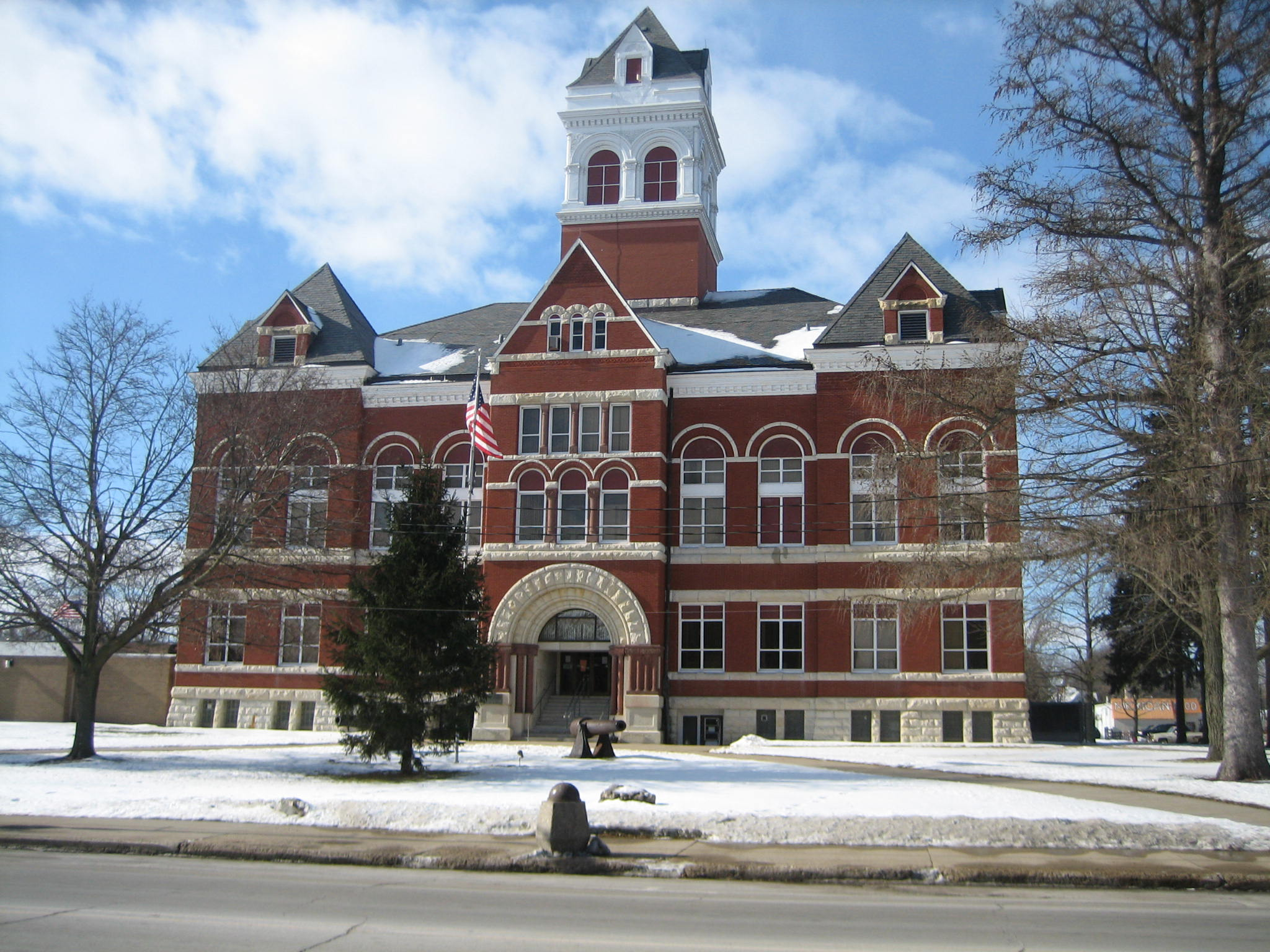 Old Ogle County Courthouse, Oregon, Illinois. National Register of Historic Places.